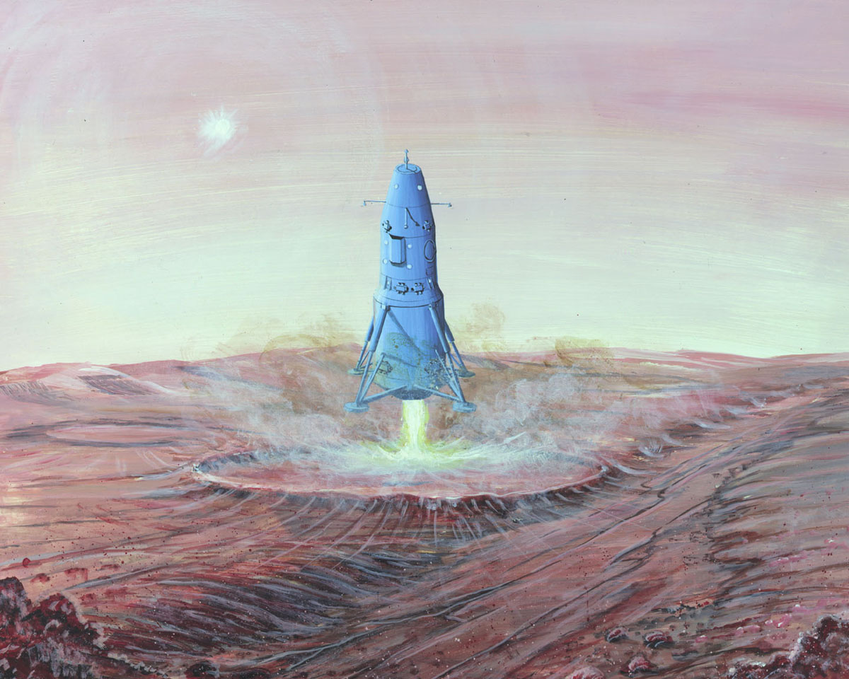 Mars Lander by Brian McMullin, 1986: The Soviet Union had conceptual plans in the 1980s to send manned spacecraft to Mars in the 1990s, even though its program to land cosmonauts on the moon failed. The mission would have required launching the spacecraft's components into Earth orbit for assembly. The roundtrip journey to Mars would have taken at least a year. Post-Soviet Russia cancelled the program due to its expense and questions regarding its feasability.